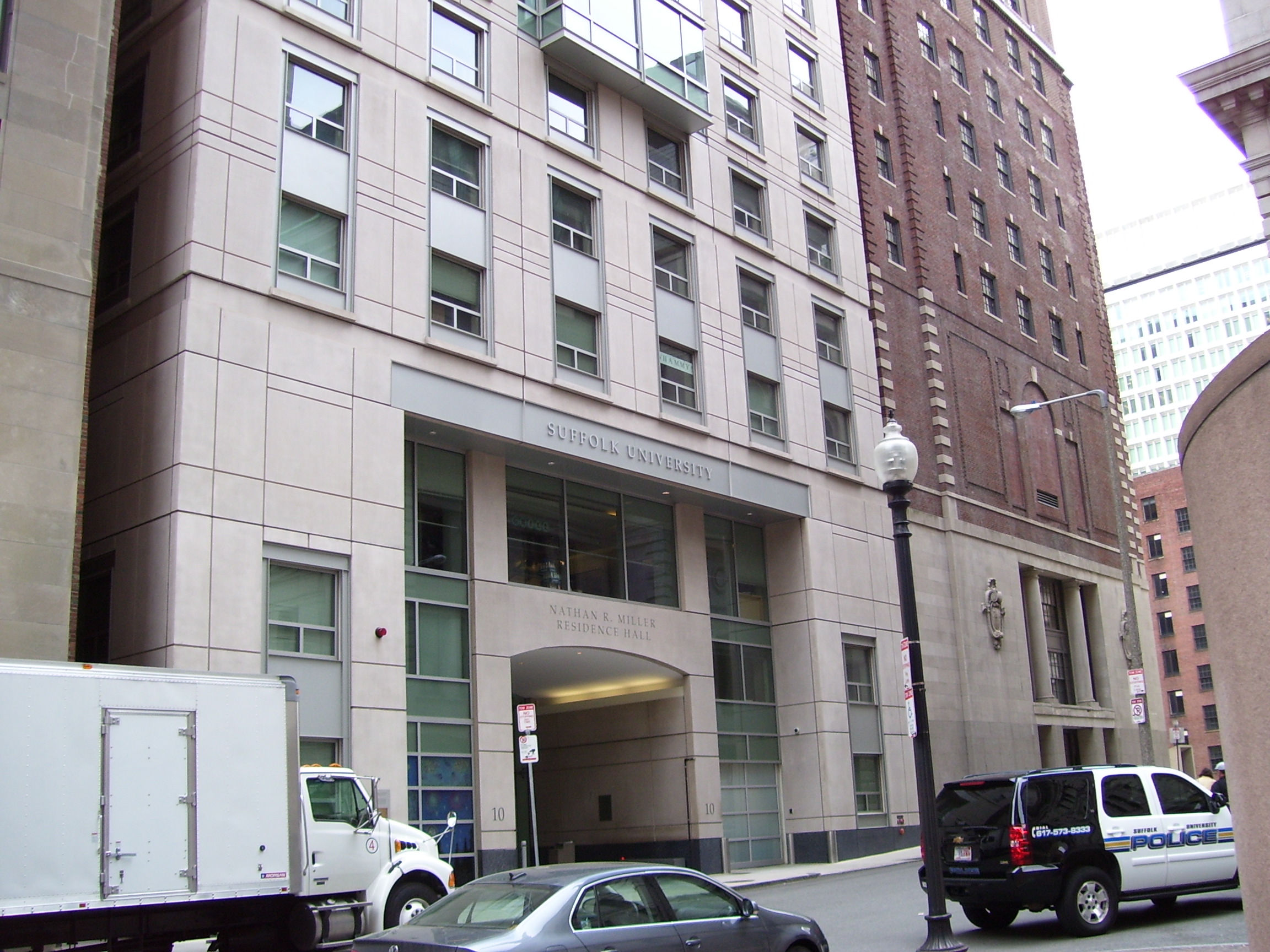 My 2008 photo of Nathan R. Miller Dorm at Suffolk University in Boston, MA.